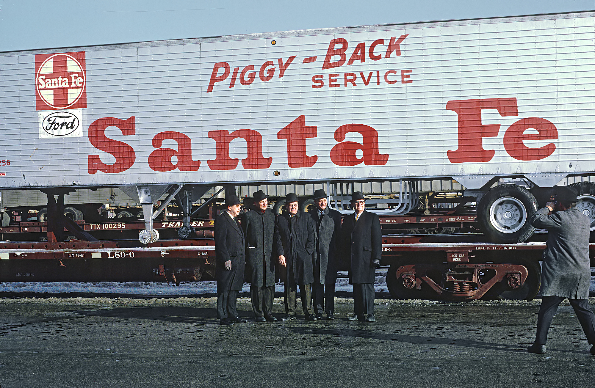 A Roger Puta photrograph